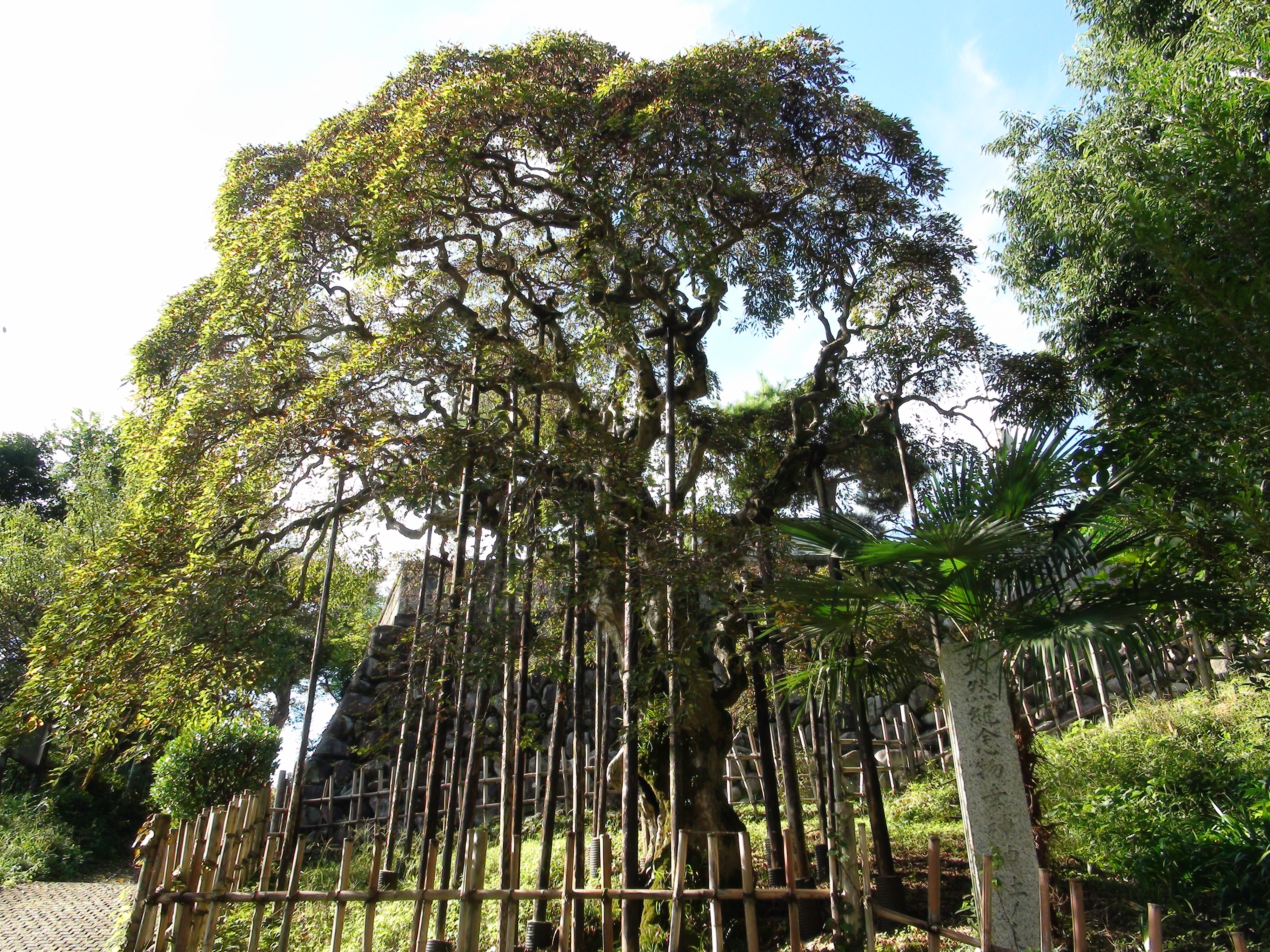 Sajigami shrines Shidare-Akashide